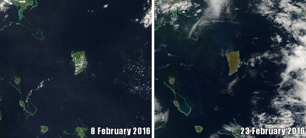 Koro Island, Fiji, before (left) and after (right) Cyclone Winston. The storm's violent winds leveled villages and caused severe defoliation across the island and other parts of Fiji. Makogai and Wakaya islands can also be seen to the southwest.